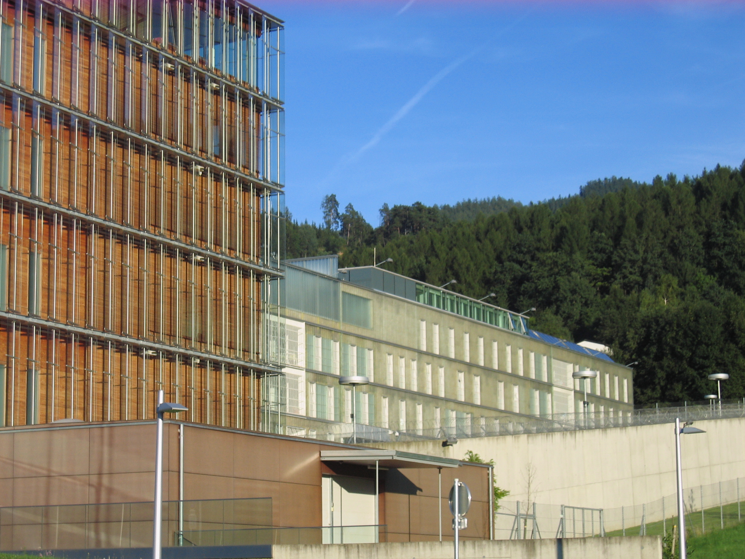 The building of the county court and penitentiary Leoben (Styria, Austria). Focus is on the prison-wing of the building.